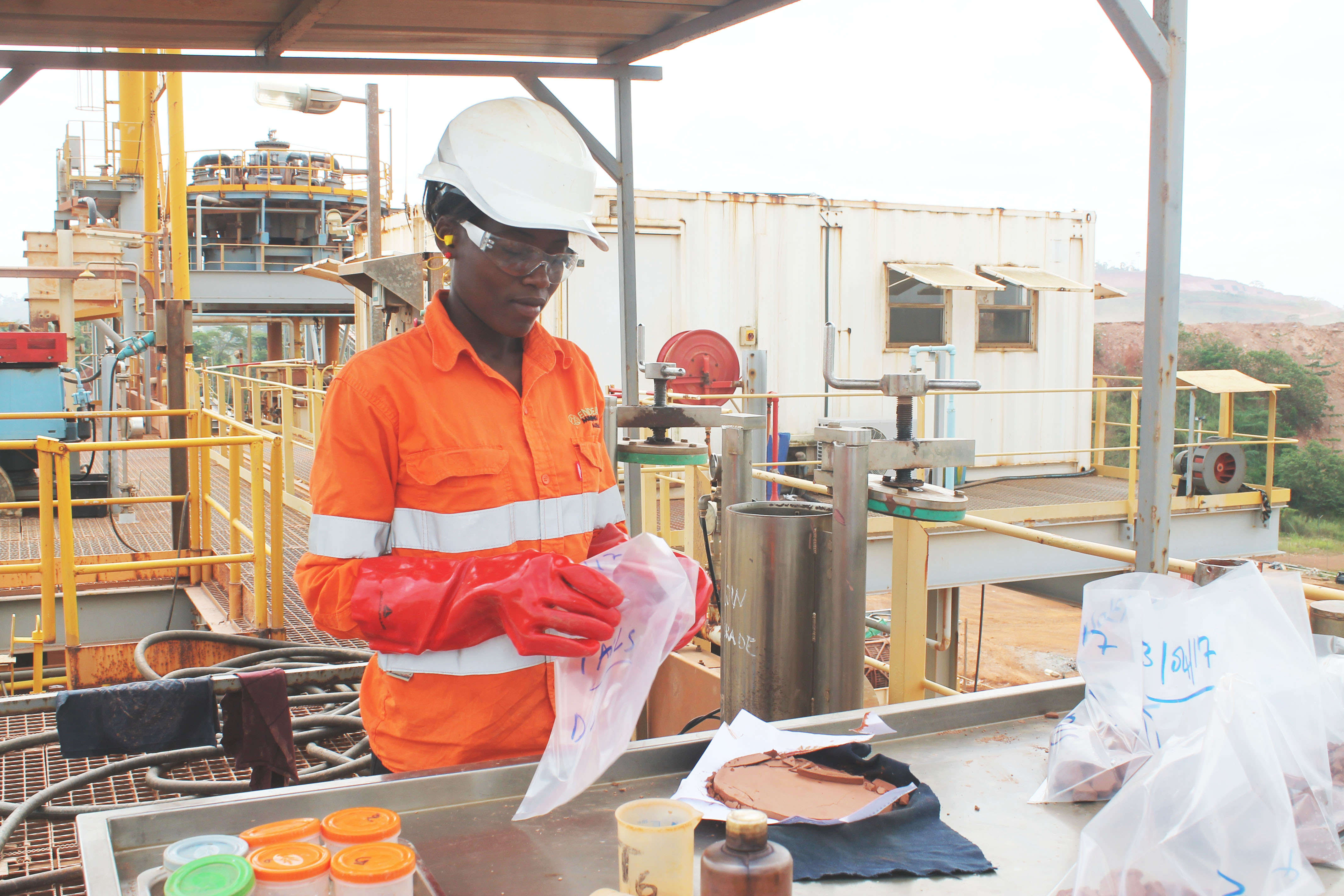 Leaving her family for a 10/4 work/rest days far from home in a small town at 200 km from Abidjan, an Ivorian woman in a mining company should be celebrate for her courage and sacrifice to help her family. Miss Ekepe Lydie is an operator at the process plant. Every day, she is in charge of the grade control and the cyanide concentration. Being in contact with chemicals could be dangerous but she knows very well how to respect the safety rules. This is an image of "African people at work" from Ivory Coast